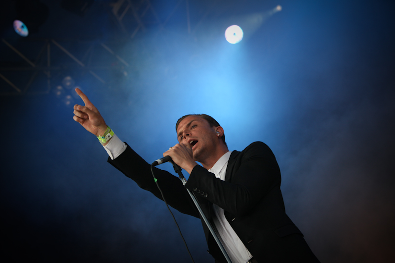 Theo Hutchcraft at Openair St. Gallen 2010